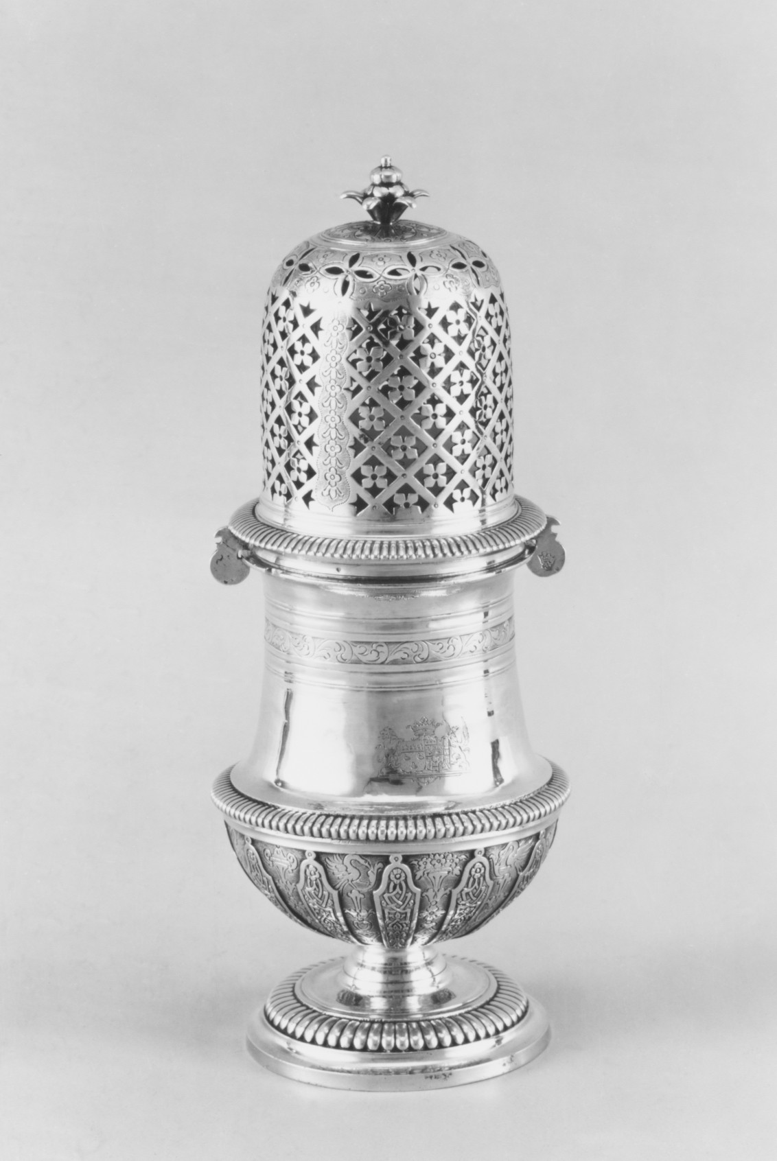 French, Paris; Sugar caster; Metalwork-Silver